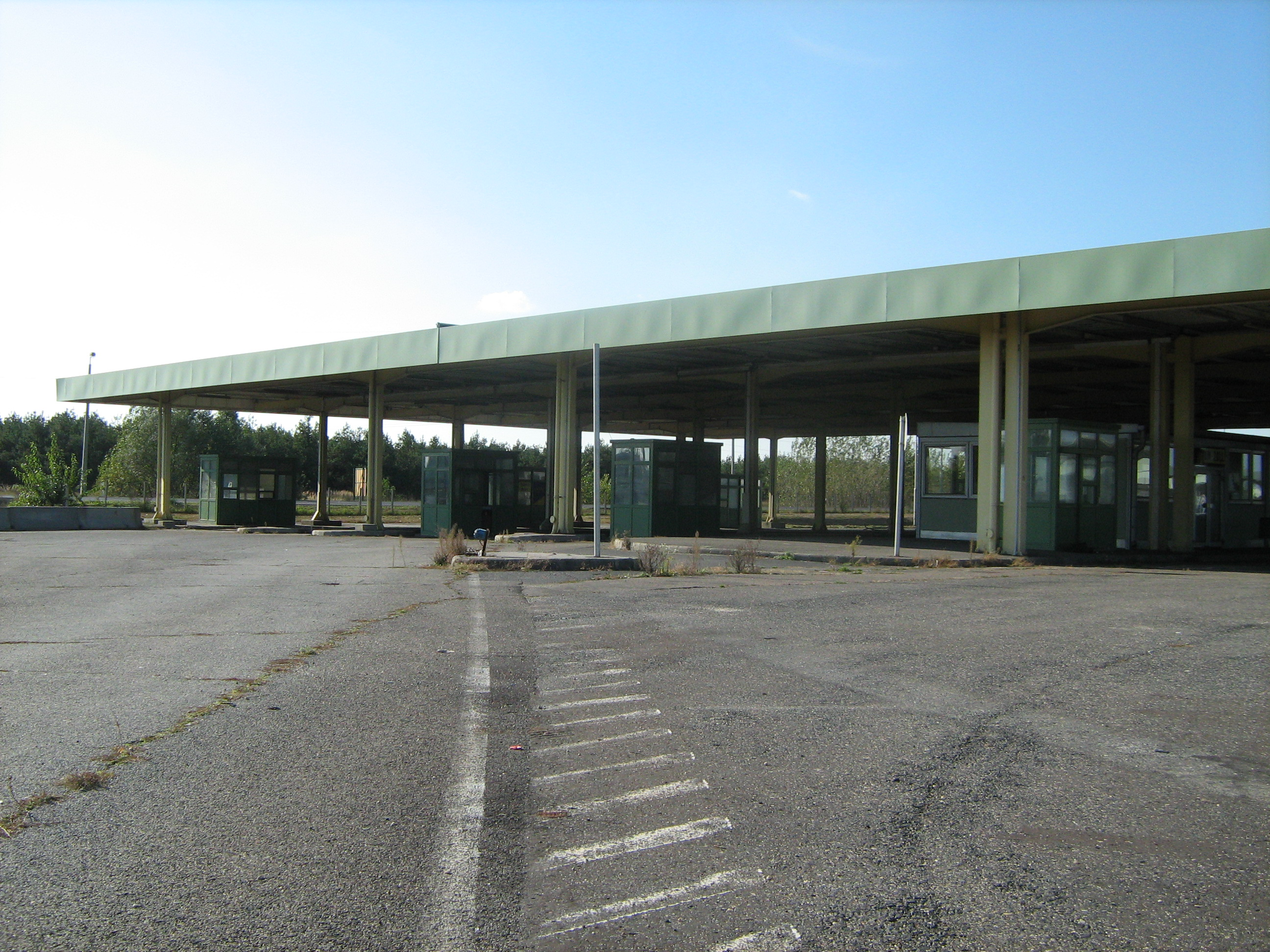 Abandoned border station at Hegyeshalom after Hungary joined the Schengen zone.